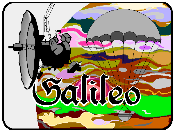 Galileo mission patch